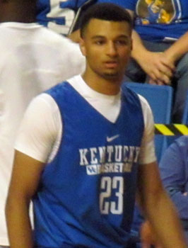 Jamal Murray in the University of Kentucky's 2015 Blue-White scrimmage